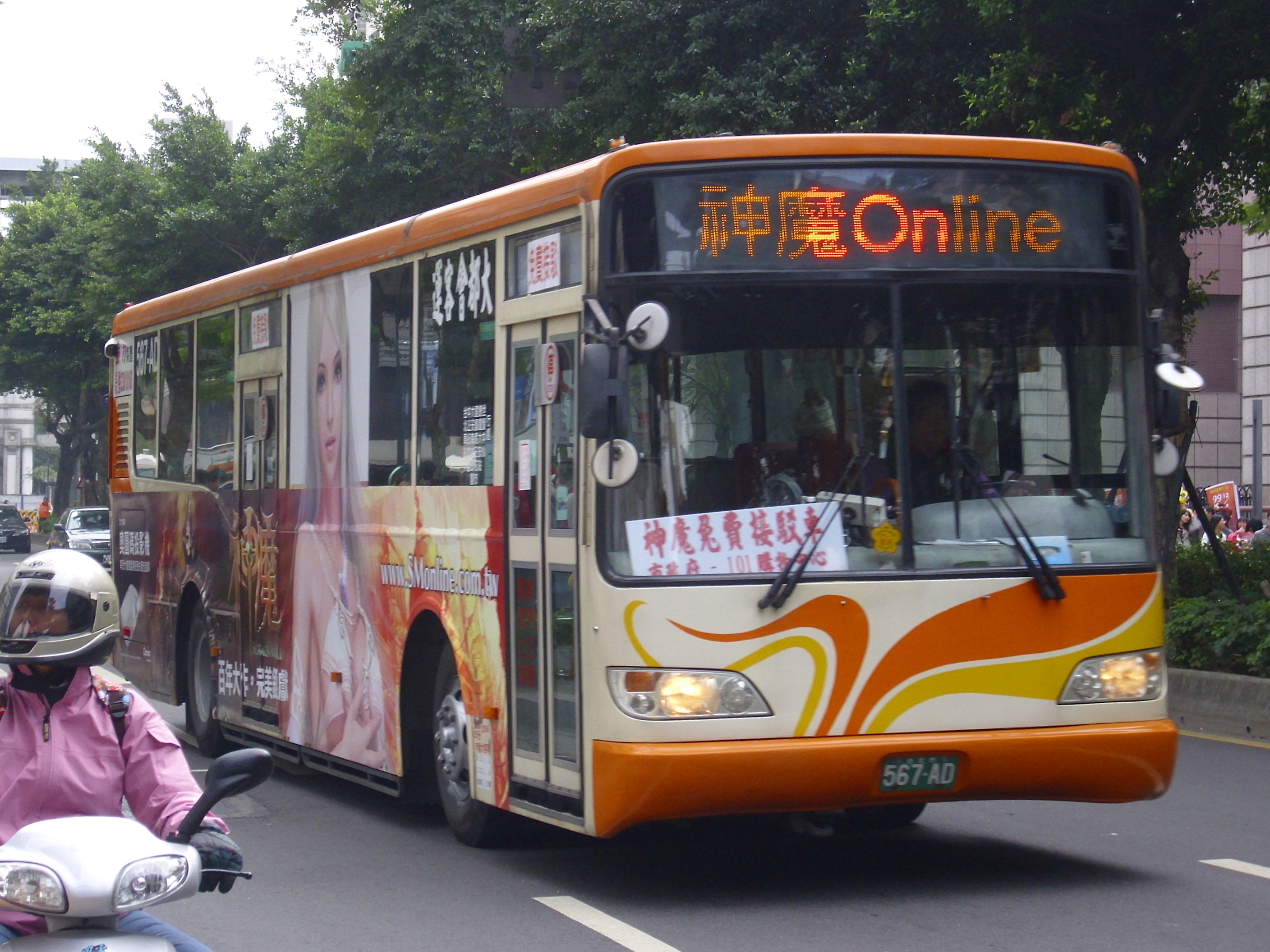 2010 Taipei IT Month: Unofficial Shuttle Bus.